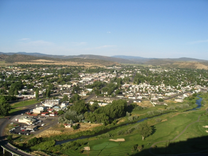 City of Prineville, Crook County, Oregon, from Ochoco State Wayside.